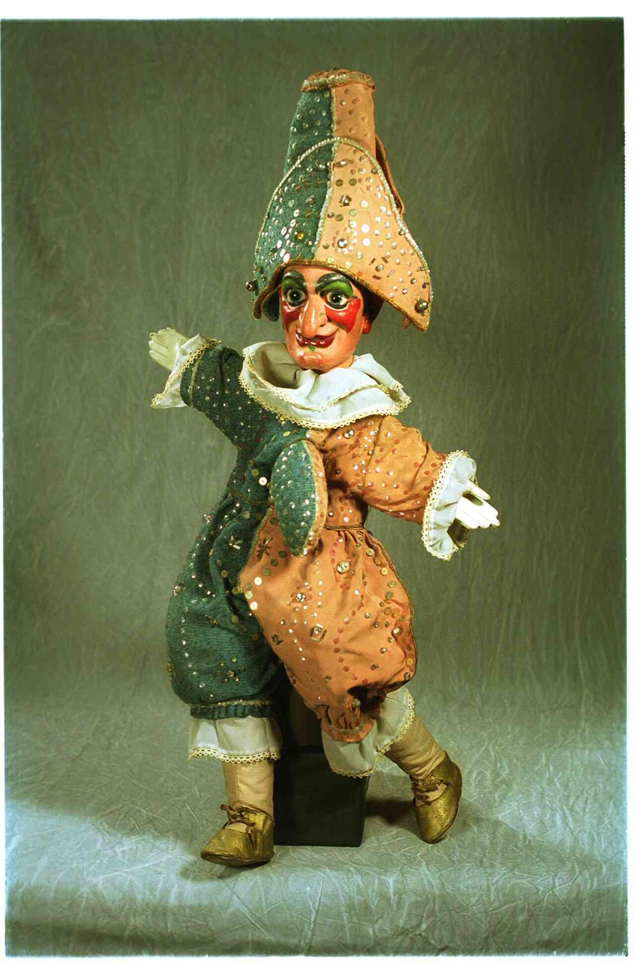 Dido's Puppet. Didó was a catalan puppeeter